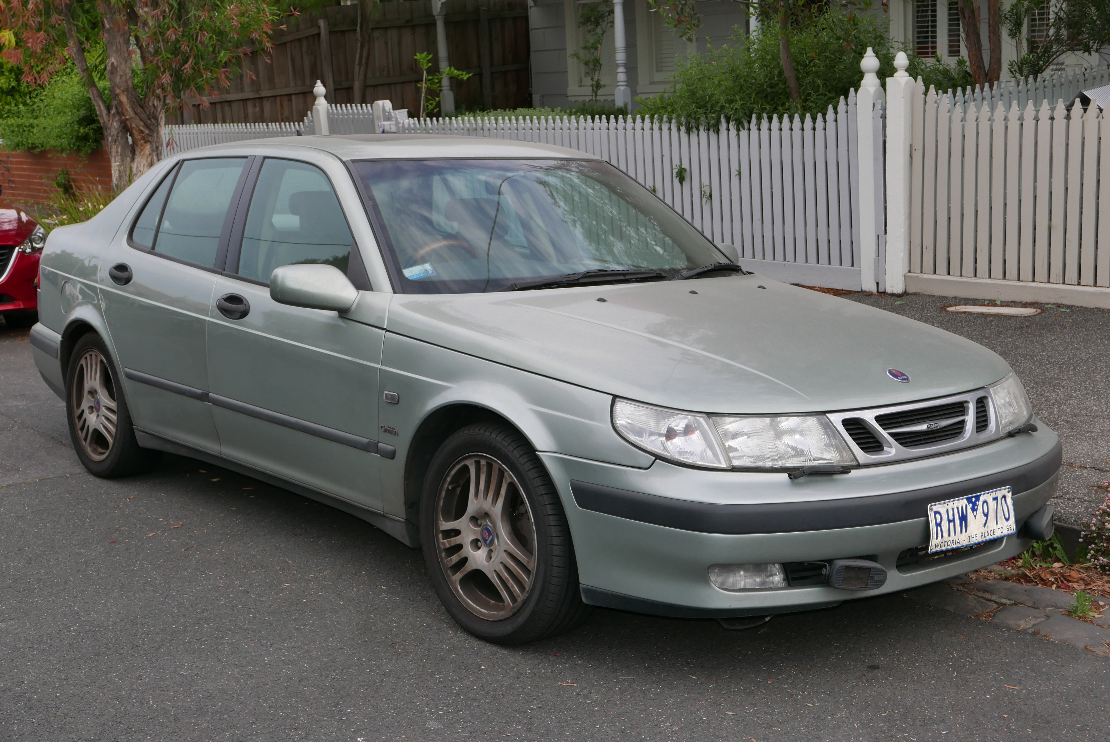 2001 Saab 9-5 Griffin sedan. Despite the date discrepancy between the description and the vehicle registration information below, the styling of the car is representative of a 2001 vintage Saab 9-5 but not one from 2002. Photographed in Brunswick, Victoria, Australia. Vehicle registration enquiry resultsJurisdictionVictoriaRegistrationRHW970Chassis codeYS3EM48Z113047020Engine codeB308EEA001547033Compliance date2002-01Year of manufacture2002